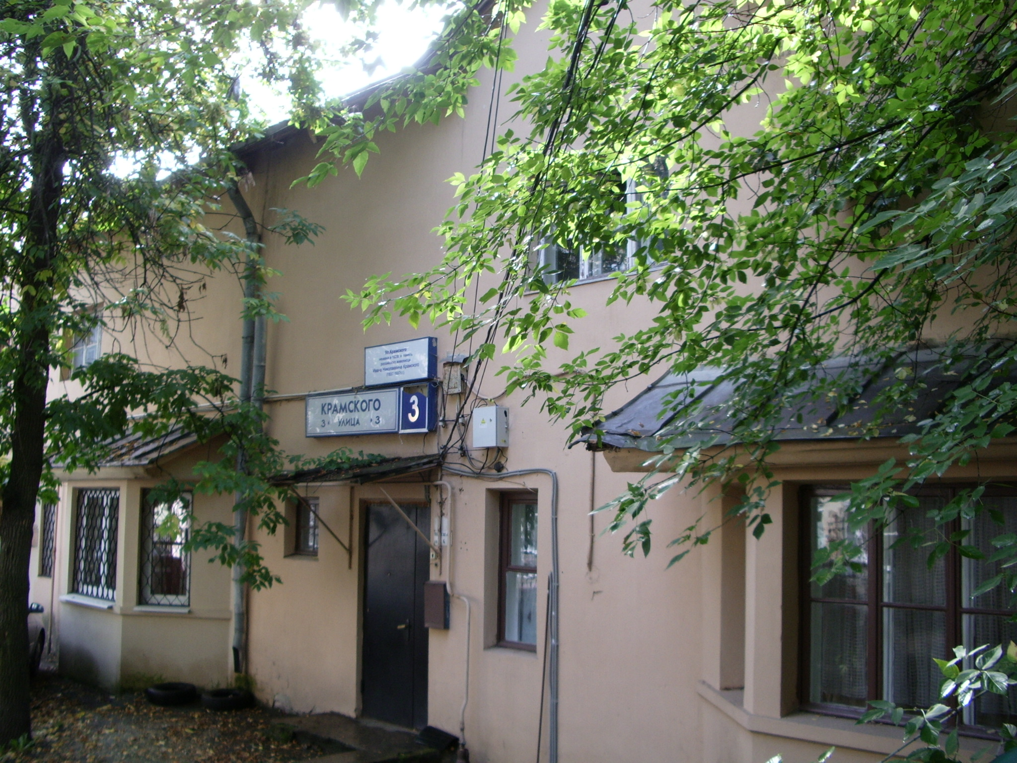 Kramskova street, 3. Sokol Settlement in Moscow.